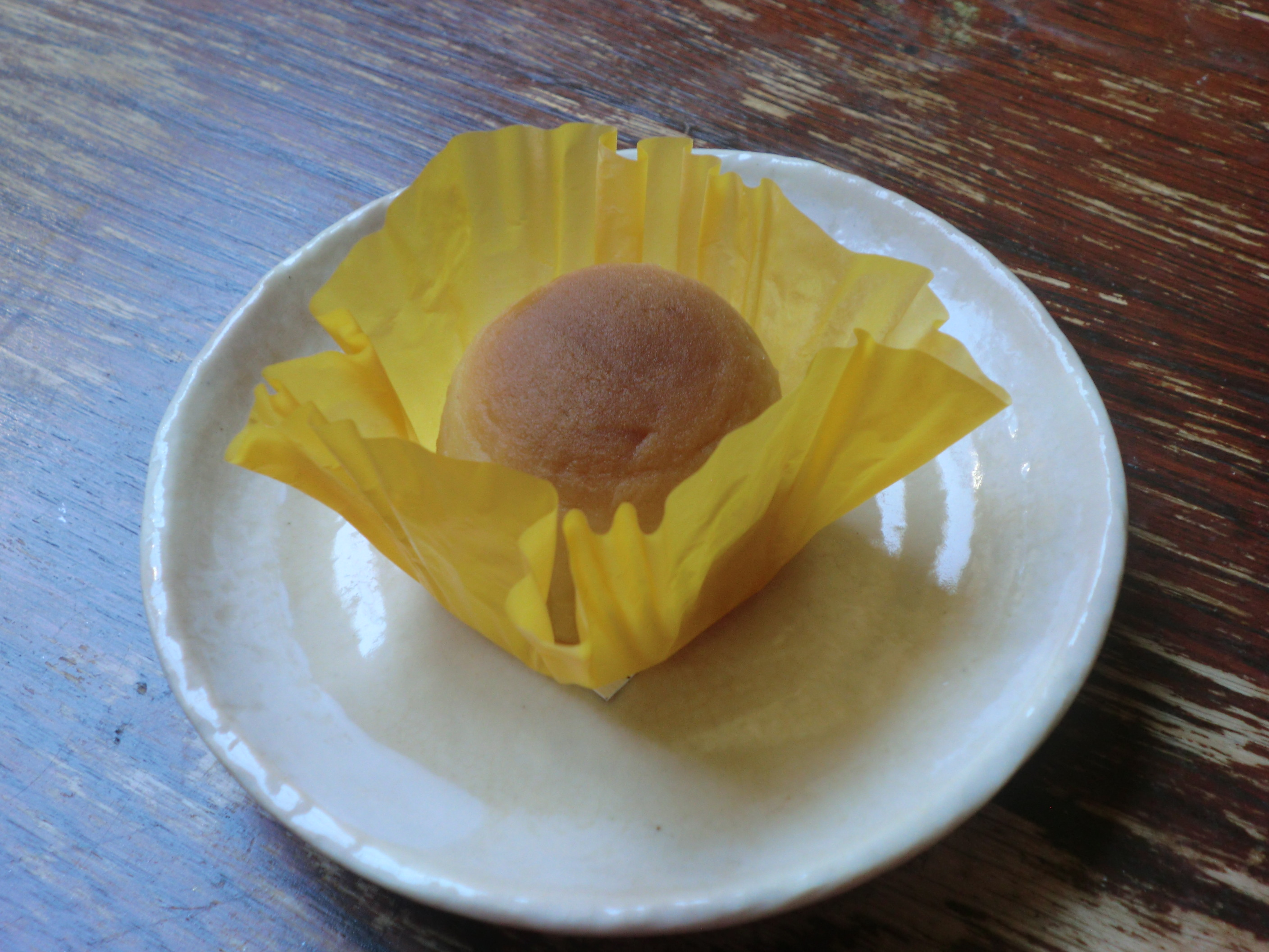 "Hakata Potato" local sweet of Fukuoka,Japan.